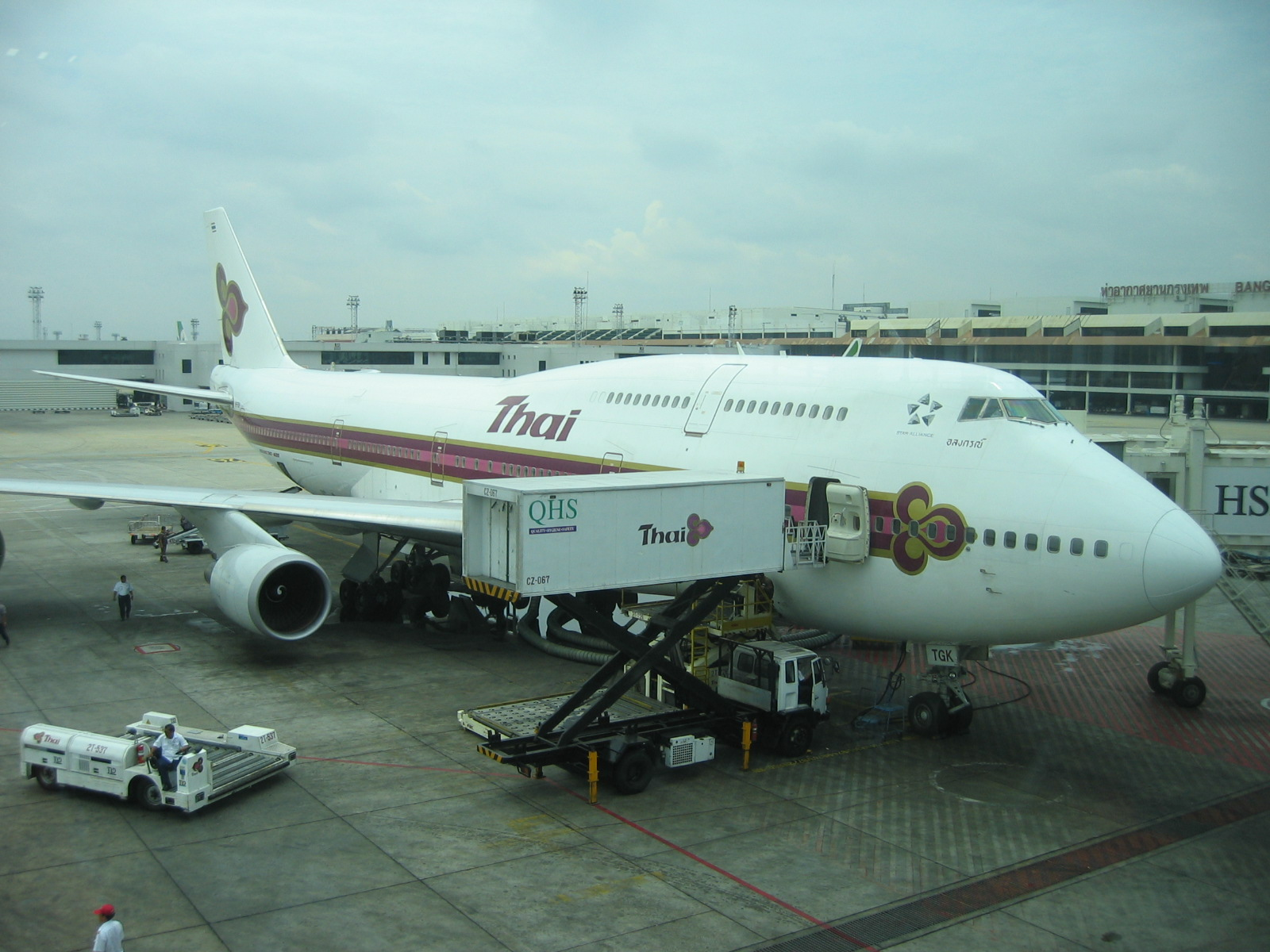 A Thai Airways Boeing 747-400 at Bangkok International Airport